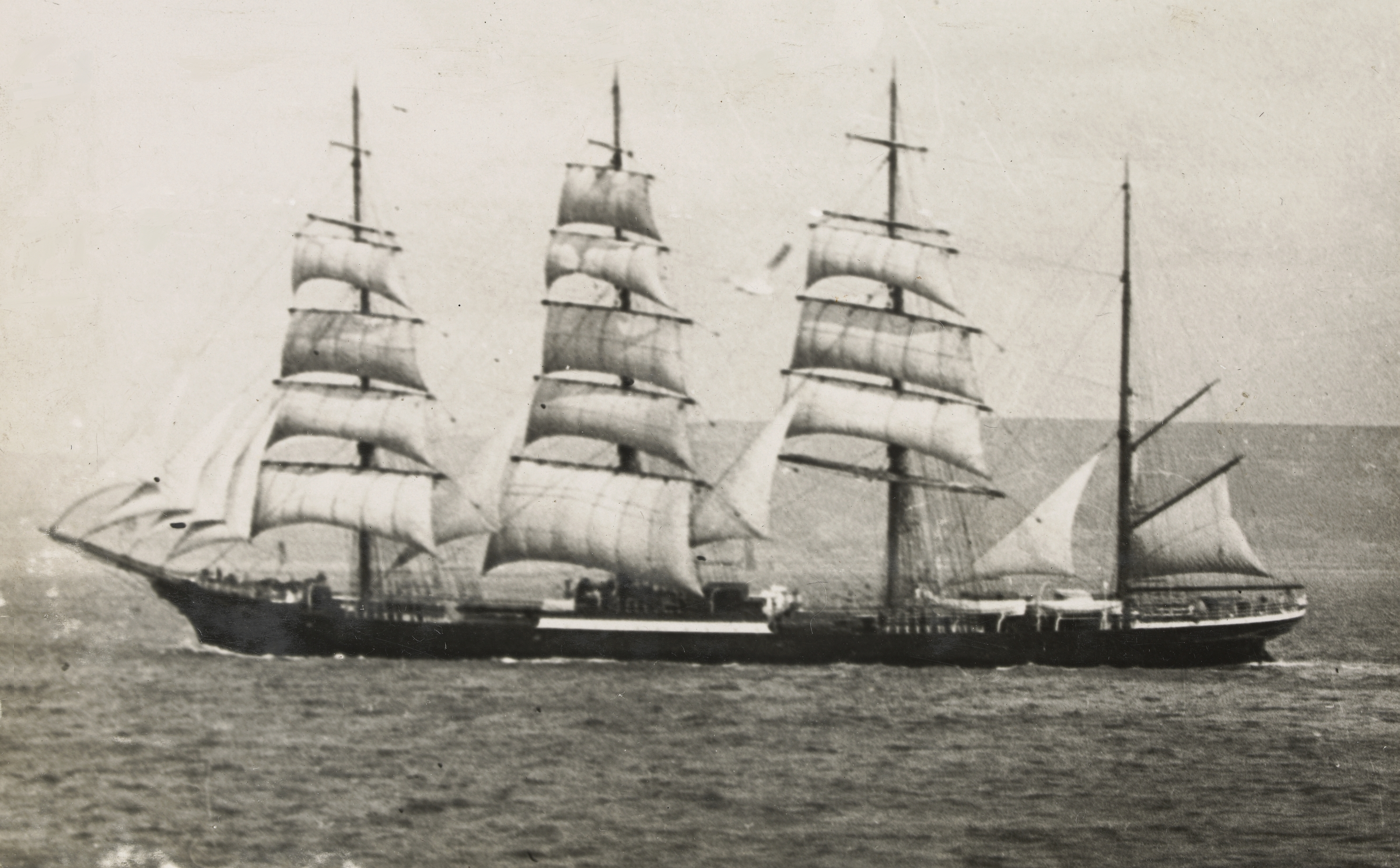 Four masted barque „Petschili“ in the English Channel. The Petschili was built in Hamburg in 1903 and beached in 1919 in Valparaiso.